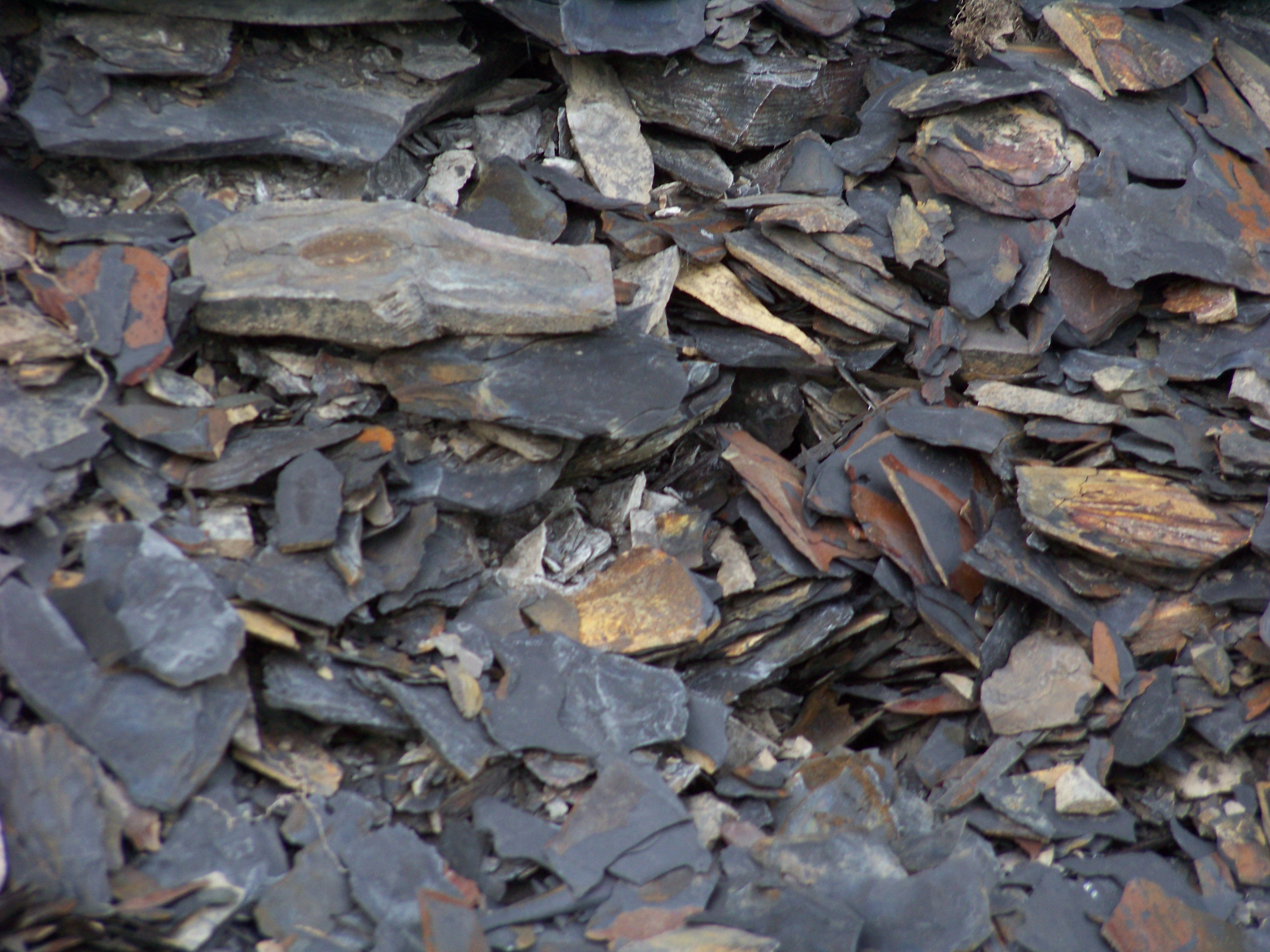 Marcellus shale along Rt 174 just south of Slate Hill Rd, Marcellus, NY